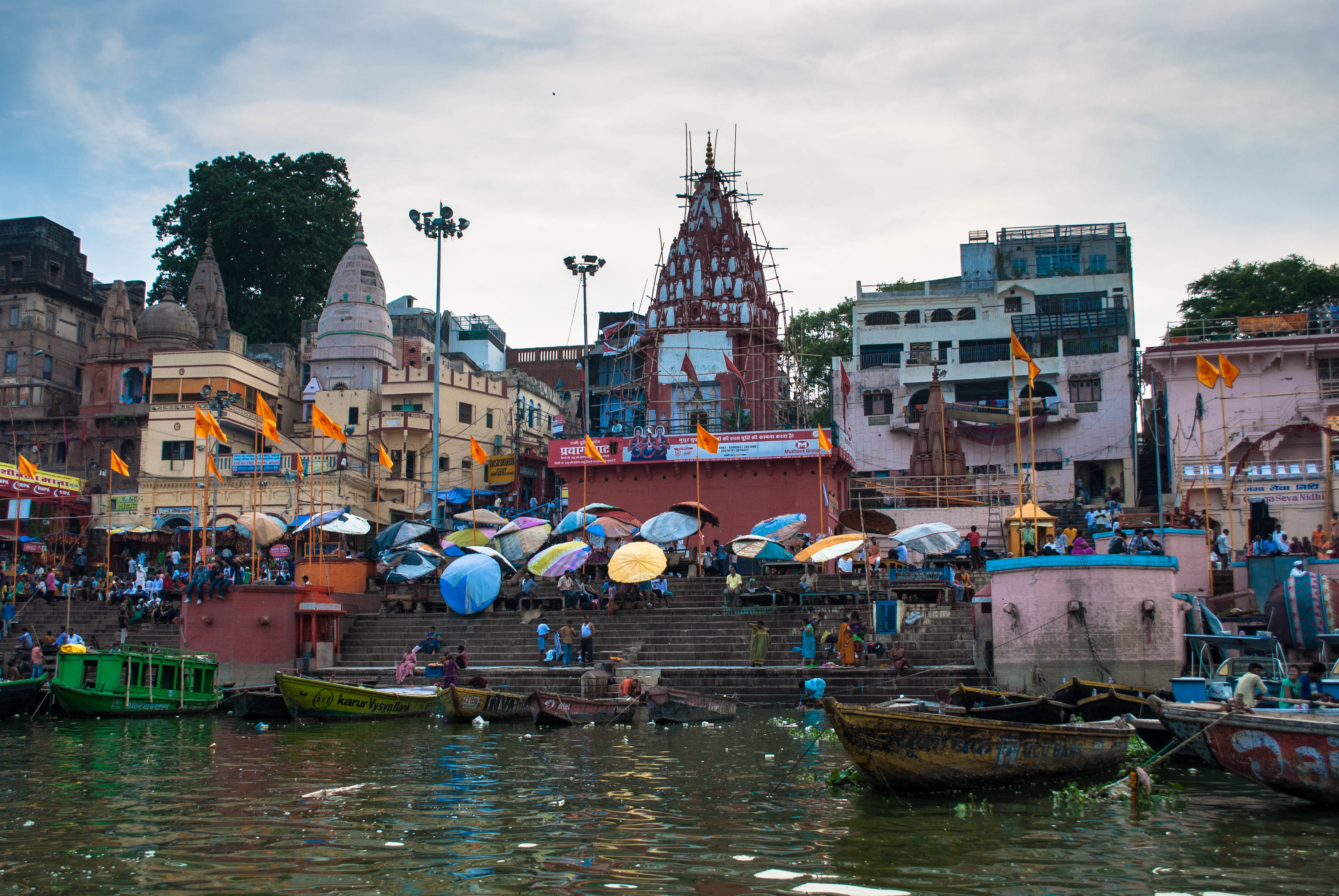 View of Dasashwamedh Ghat in the evening before Arati,Varanasi